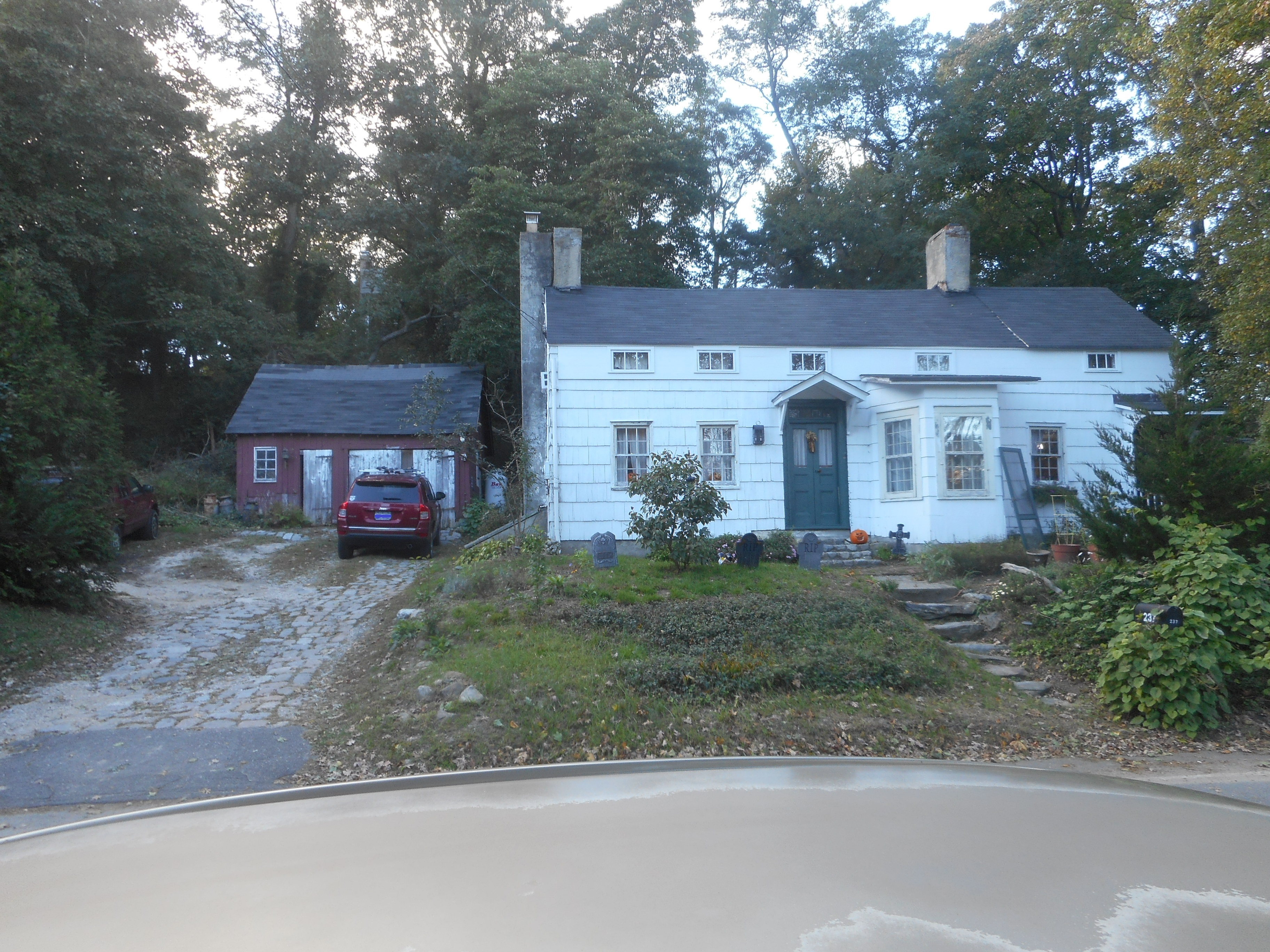 The NRHP-listed B. Ketchum House at 237 Middleville Road on the northwest corner of Bread-and-Cheese Hollow Road (Suffolk CR 4) in Fort Salonga, New York. This is one of those houses I struggled to get a picture of for years. Fort Salonga is divided by the Huntington-Smithtown Town Line, and this house is on the Huntington side of Fort Salonga.